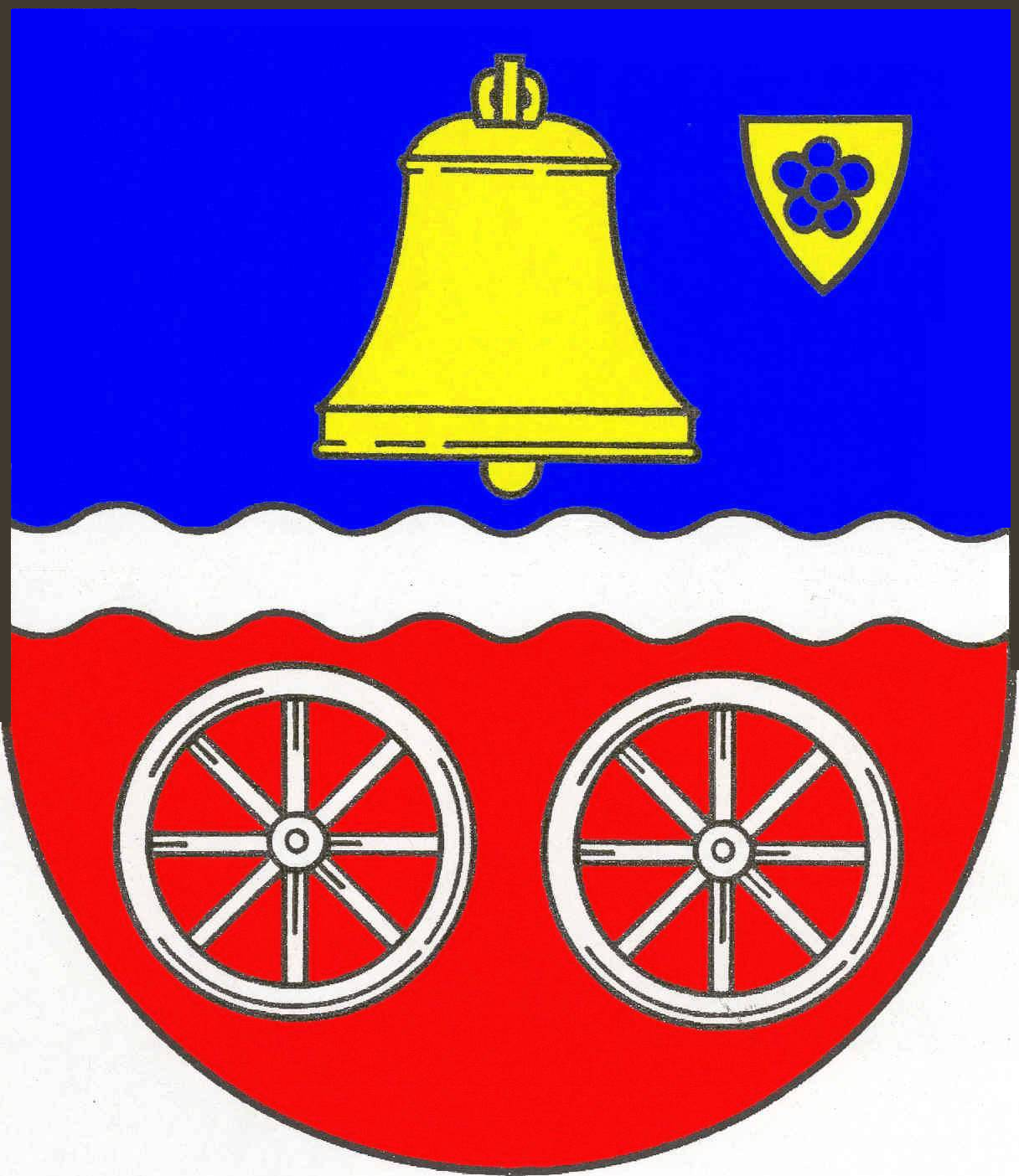 Coat of arms of the municipality Lütjensee in Schleswig-Holstein, Germany.